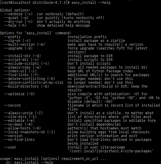 easy_install --help